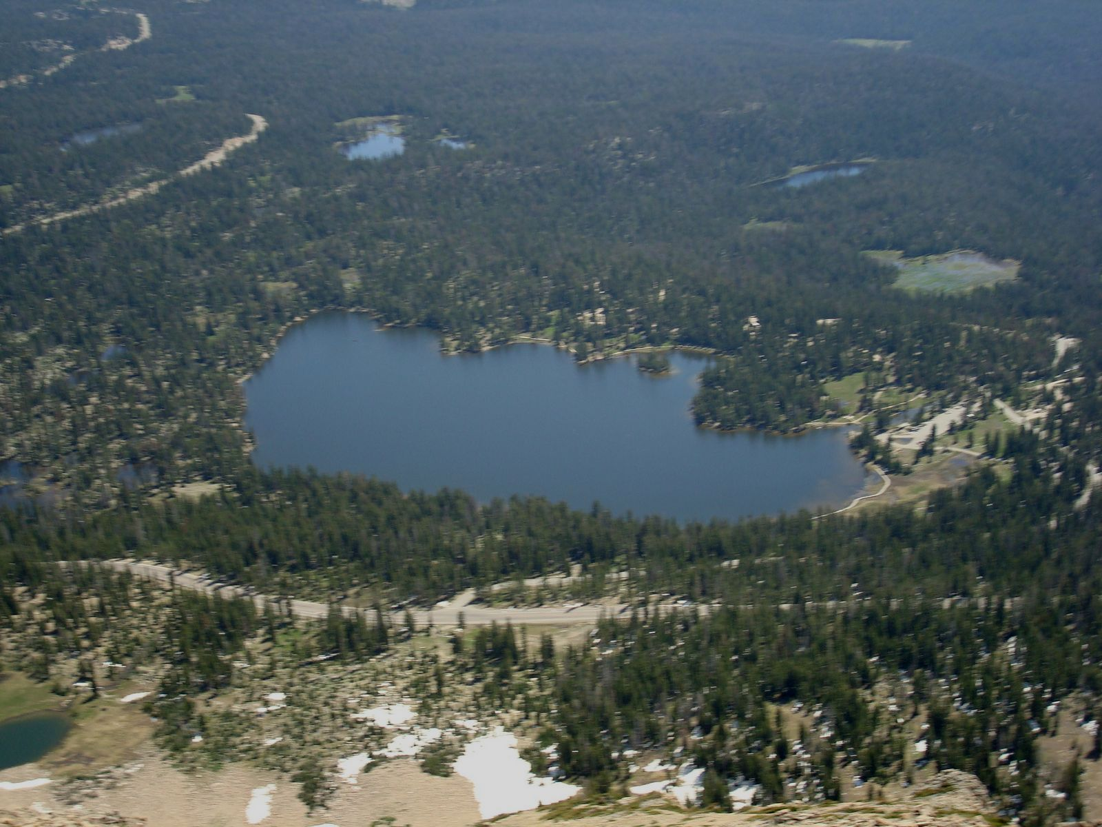 Mirror Lake in the Uinta Mountains of Utah. The picture is from the peak of Bald Mountain.